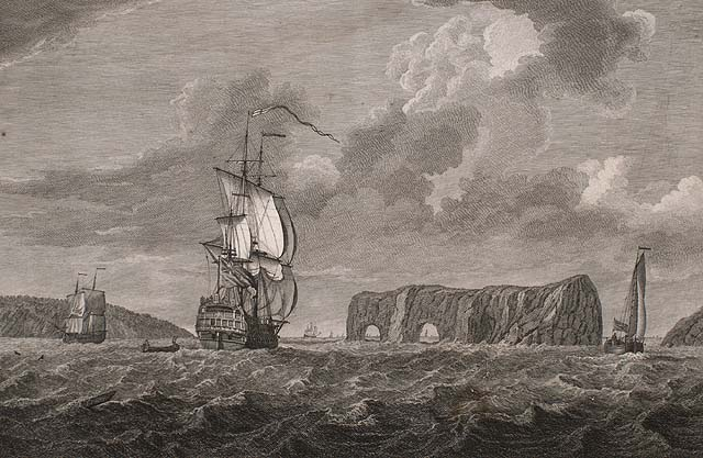 Print title: "A view of the Pierced Island, a remarkable rock in the Gulf of St. Laurence - two leagues to the southward of Gaspée Bay / Vüe de l'Isle Percée, rocher remarquable dans le Golfe St. Laurent a 2 lieues au sud de la Baye de Gaspe". / / drawn on the spot by Captain Hervey Smyth, 1760 ; engraved by Pierre Charles Canot ( 1710-1777, engraver), Created/Published: London : 1768). Summary: Print shows a warship in the foreground approaching rock formation in the Gulf of Saint Lawrence. Reproduction Number: LC-USZ62-45583, Rights Advisory: No known restrictions on publication. Repository: Library of Congress Washington, D.C. 20540 USA Library of Congress, Prints and Photographs division cph.3a45775 This image is available from the United States Library of Congress's Prints and Photographs division under the digital ID cph.3a45775.This tag does not indicate the copyright status of the attached work. A normal copyright tag is still required. See Commons:Licensing for more information.